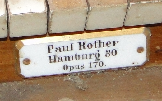 Pipe organ of Paul Rother in the church in Zehna, district Rostock, Mecklenburg-Vorpommern, Germany